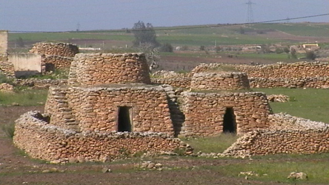 two small tazotas in Gritat Walon: deus ptitès tazota a Gritat